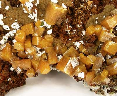 Calcite, Wulfenite Locality: San Juan Poniente, Ojuela Mine, Mapimí, Municipio de Mapimí, Durango, Mexico (Locality at ) Size: cabinet, 12.2 x 6.9 x 3.4 cm Wulfenite with Calcite Due to teh fragile nature of the matrix, few good larger specimens in thsi quality could be extracted. Sharp pseudocubic crystals of lustrous and translucent, butterscotch-colored wulfenite, to 1.0 cm in length cover much of the matrix. A few of the wulfenite crystals are doubly terminated. Adding color contrast are unusually silky/lustrous, white calcite crystals to .25 cm across. Sawed on the bottom, so it sits flat for display - but very much more 3-dimensional in person than it seems. This large specimen is nearly pristine, too.